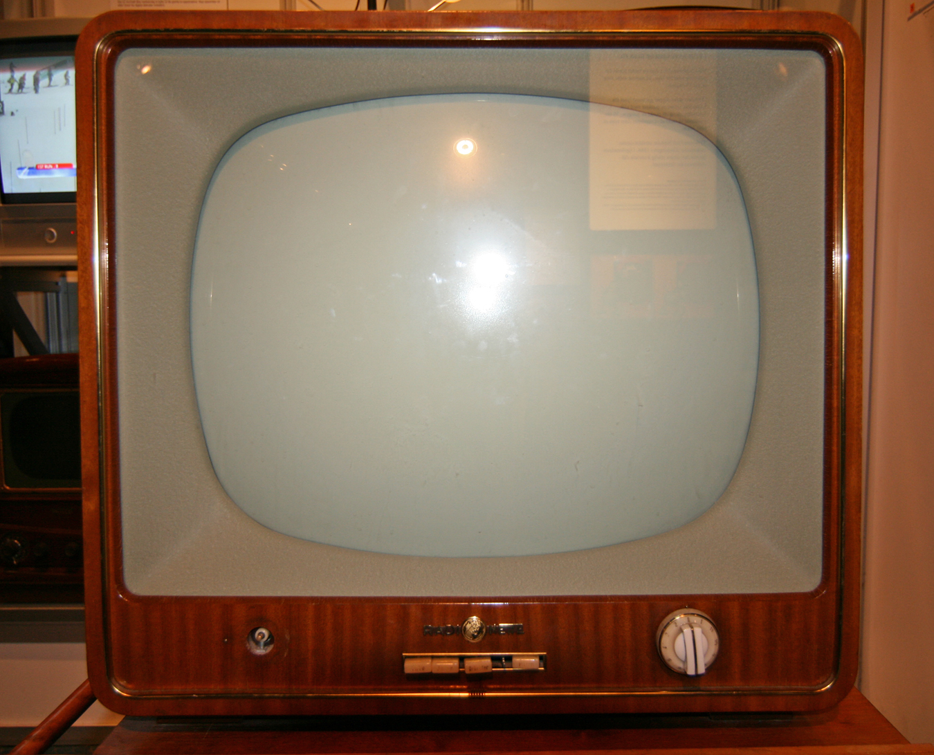 TV set from Norwegian manufacturer Radionette. (Norwegian Technology Museum, Oslo.)